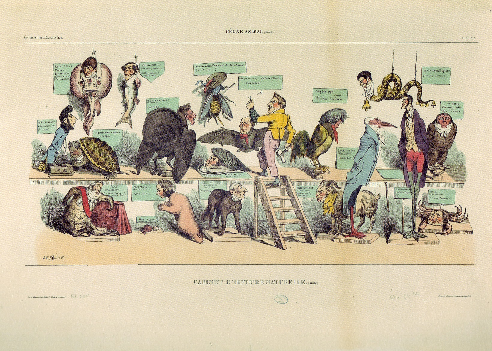 Caricature "Cabinet d'histoire naturelle" (cabinet of natural history) by the french artist J. J. Grandville, lithography.